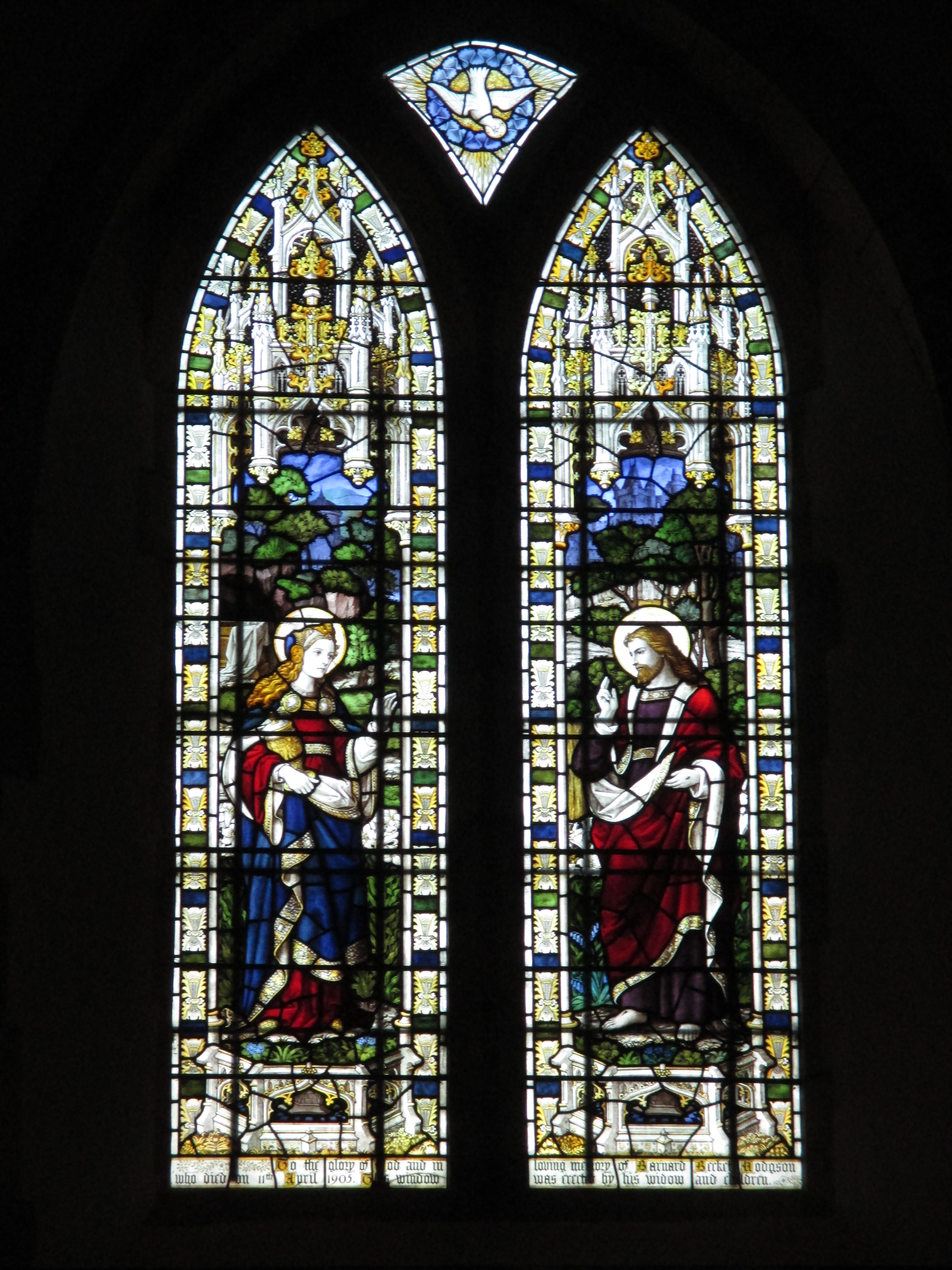 East window of St. Mary Magdalene's Church, Bolney, West Sussex, made by the firm of Burlison and Grylls c. 1905.